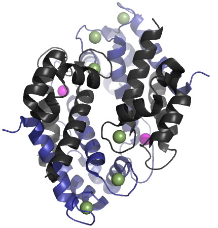 Crystal structure of manganese and calcium loaded calprotectin. Based on PyMol rendering of PDB 4GGF. Grey chains: S100A8 Blue chains: S100A9 Purple spheres: Mn2+ Green spheres: Ca2+